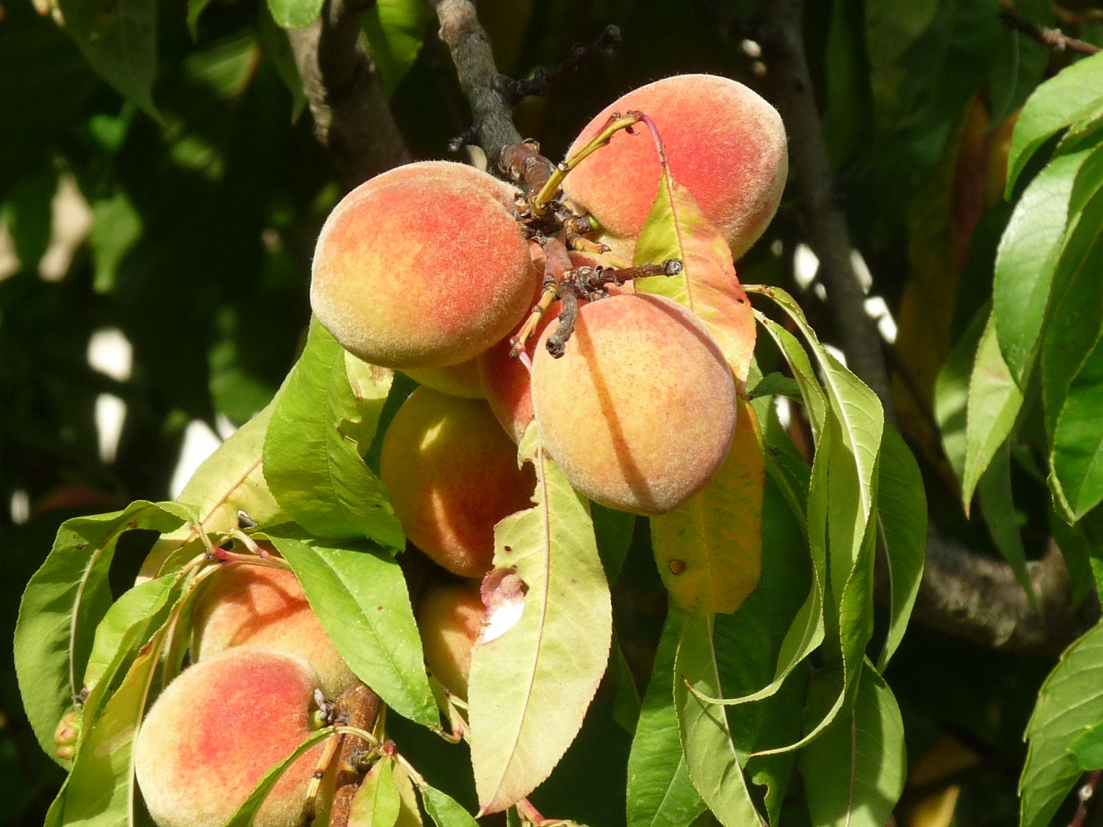 Vineyards peaches at St-Palais, Charente-Maritime, SW France